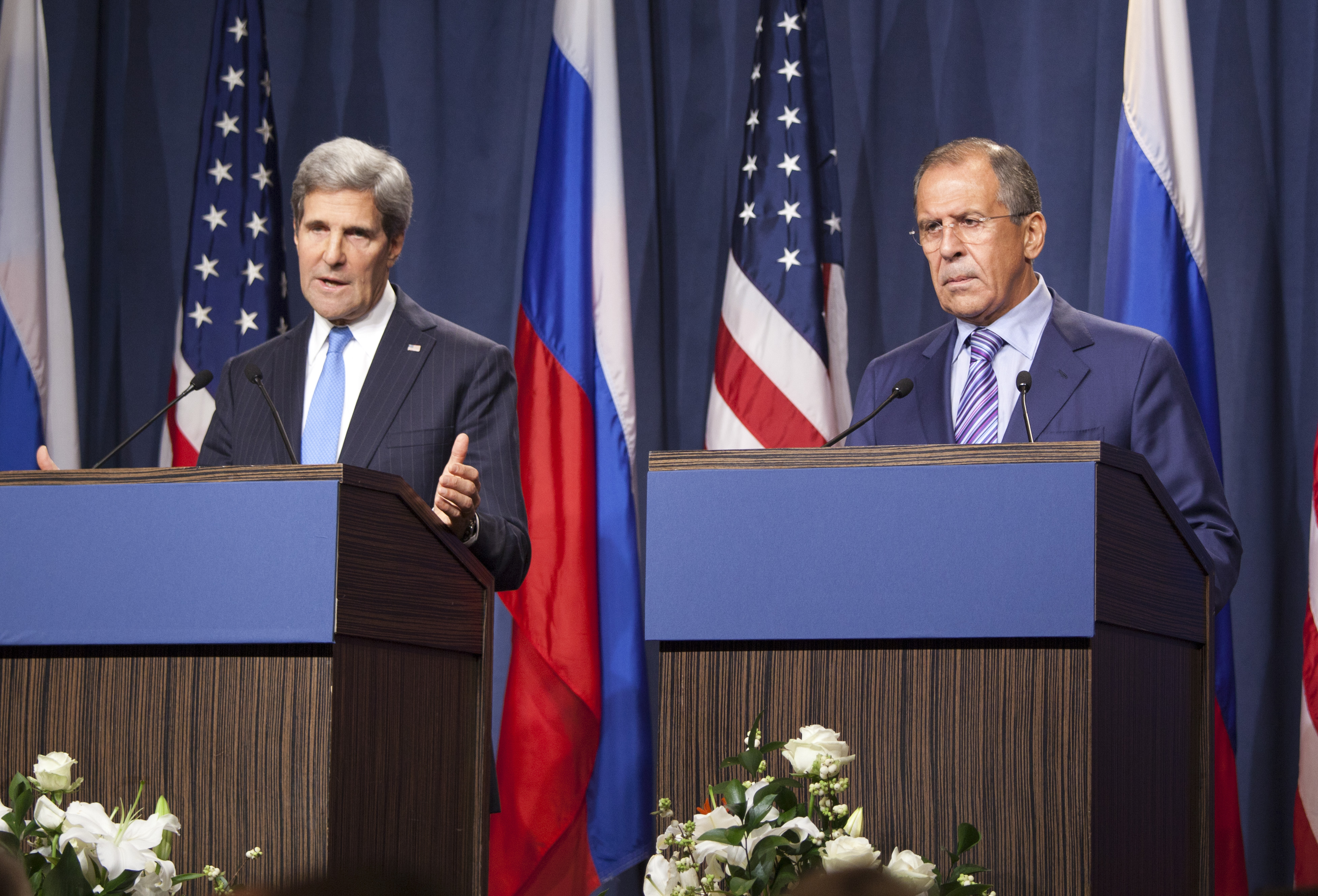 U.S. Secretary of State John Kerry and Russian Foreign Minister Sergey Lavrov make joint statements at the start of talks aimed at ridding Syria of chemical weapons in Geneva, Switzerland on September 12, 2013.